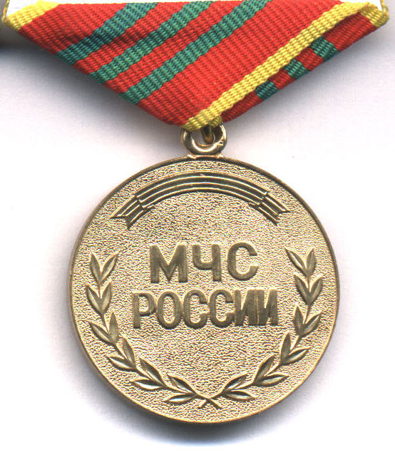 Medal «For difference in military service» 3st revers